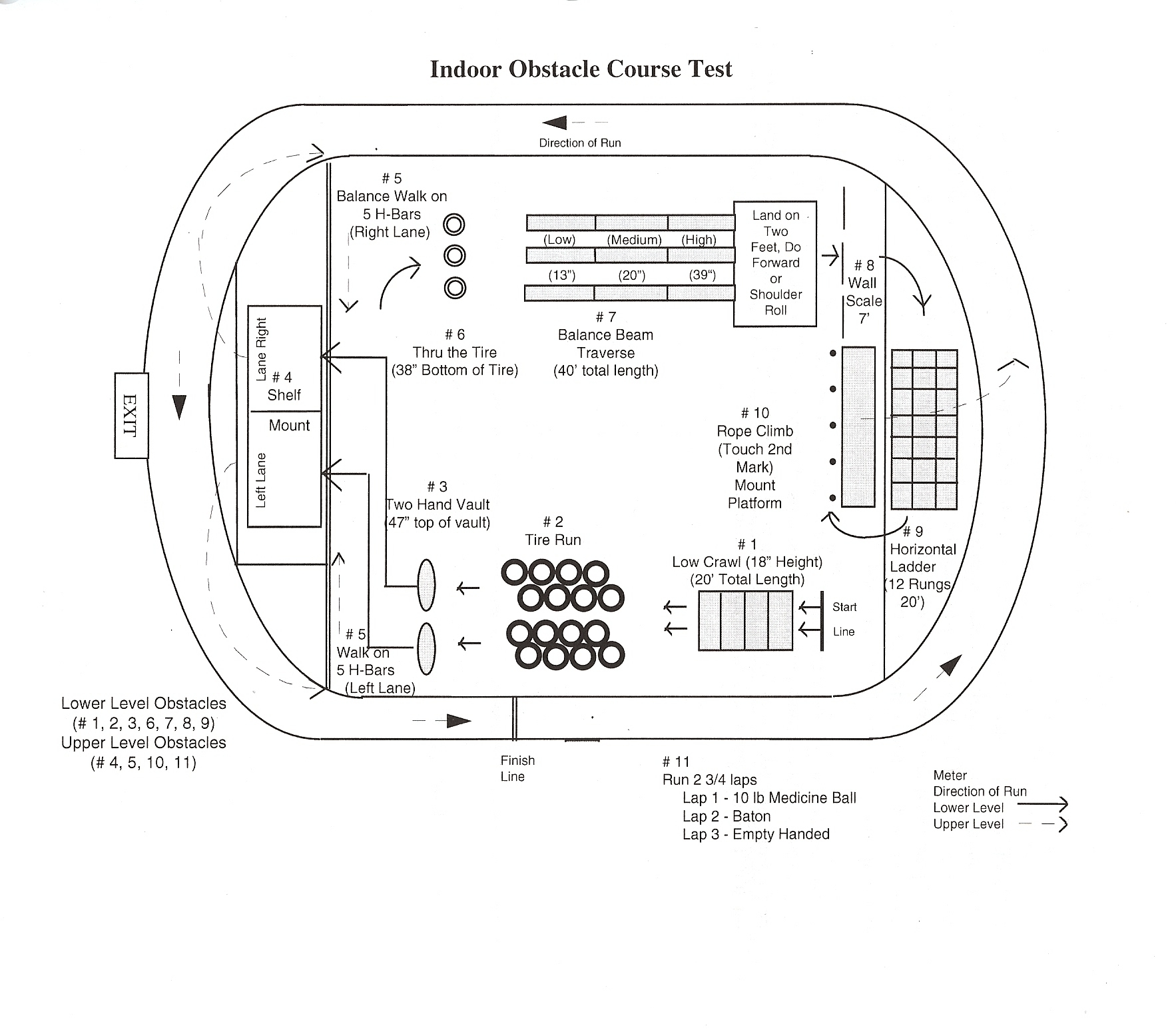 A diagram of the IOCT as ran in Hayes gym